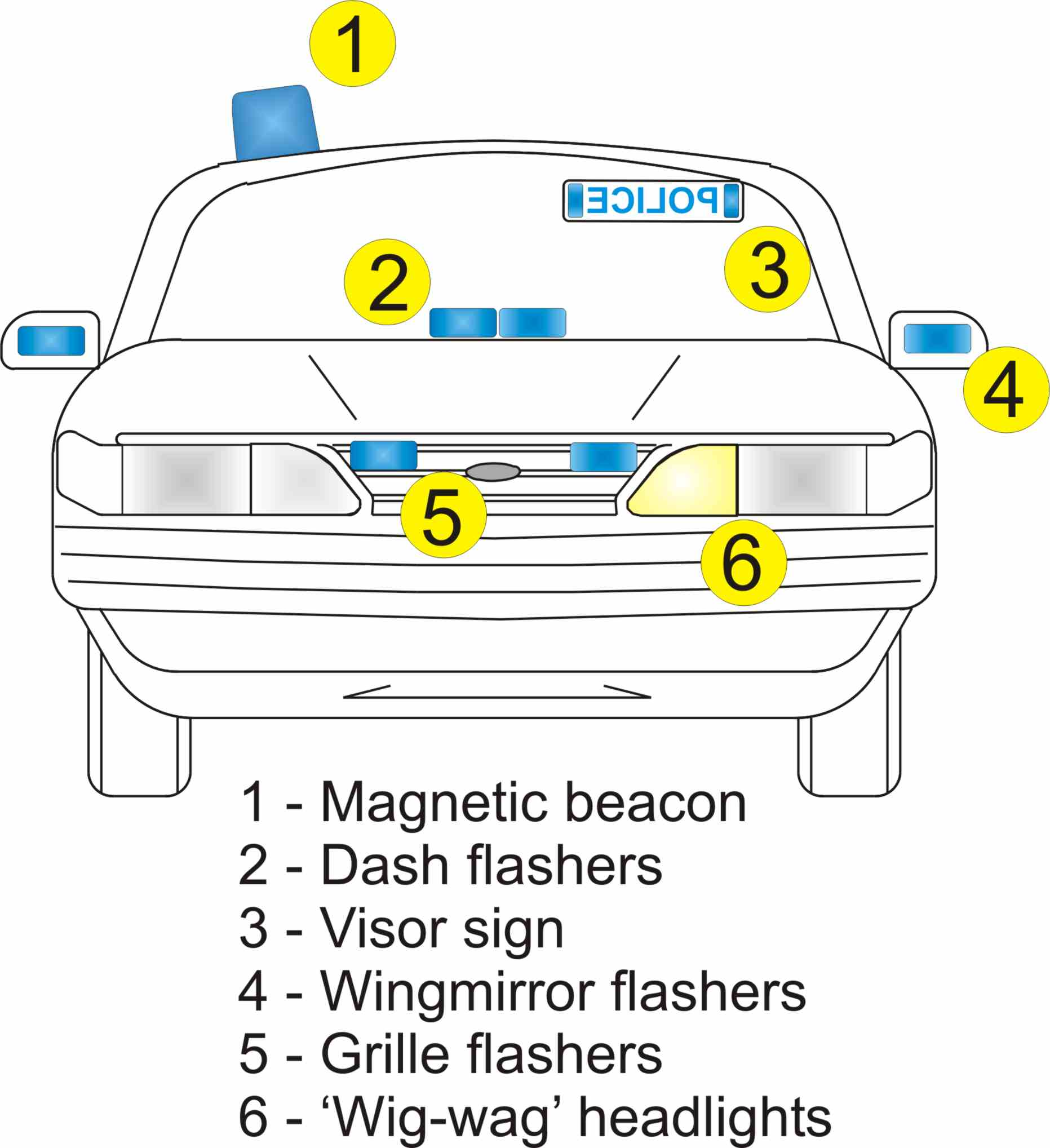 Illustration of potential positions for active warning beacons on covert cars